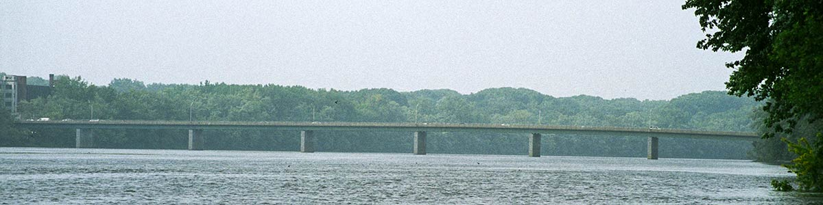 Bridge Street Bridge, carrying Connecticut Route 140 between Windsor Locks, Connecticut and East Windsor, Connecticut over the Connecticut River.